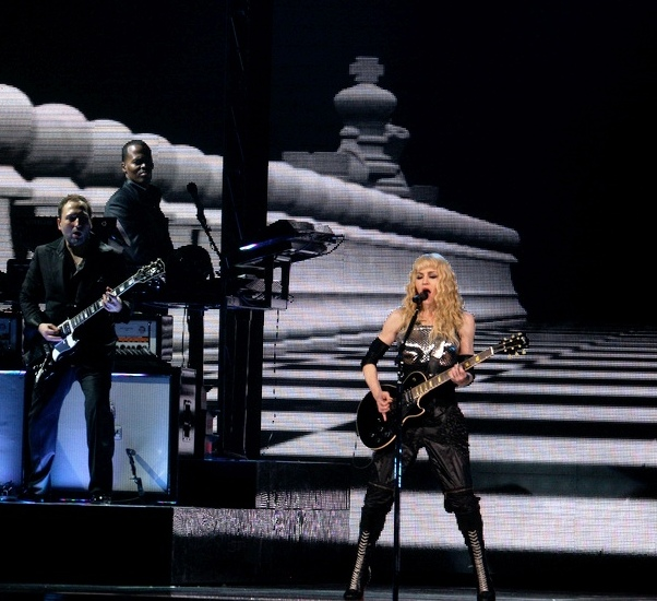 Madonna performing "Hung Up" on the Sticky & Sweet Tour, as a game of chess is shown on the screen